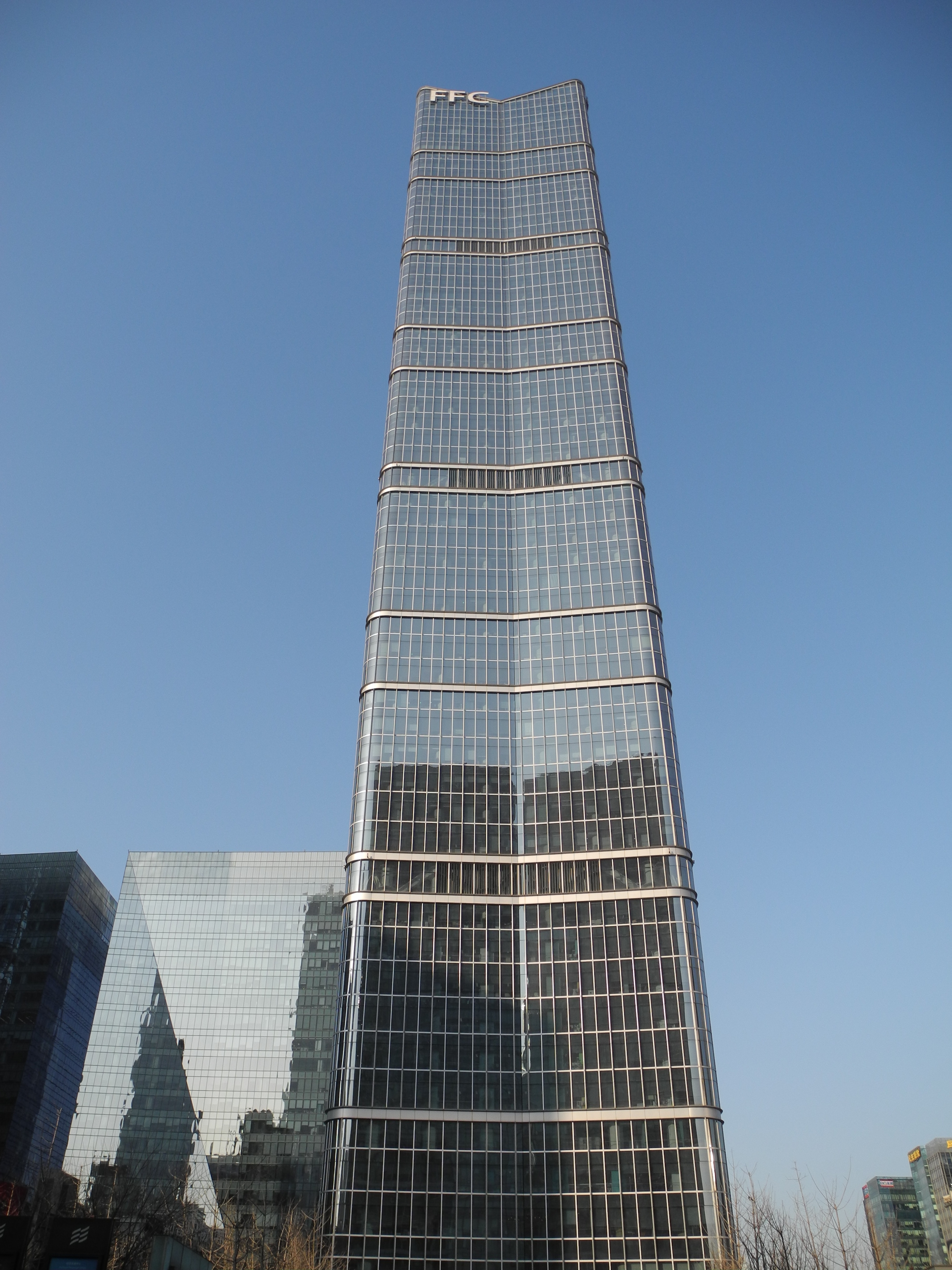 The Fortune Financial Center in Beijing, PR China (2017)